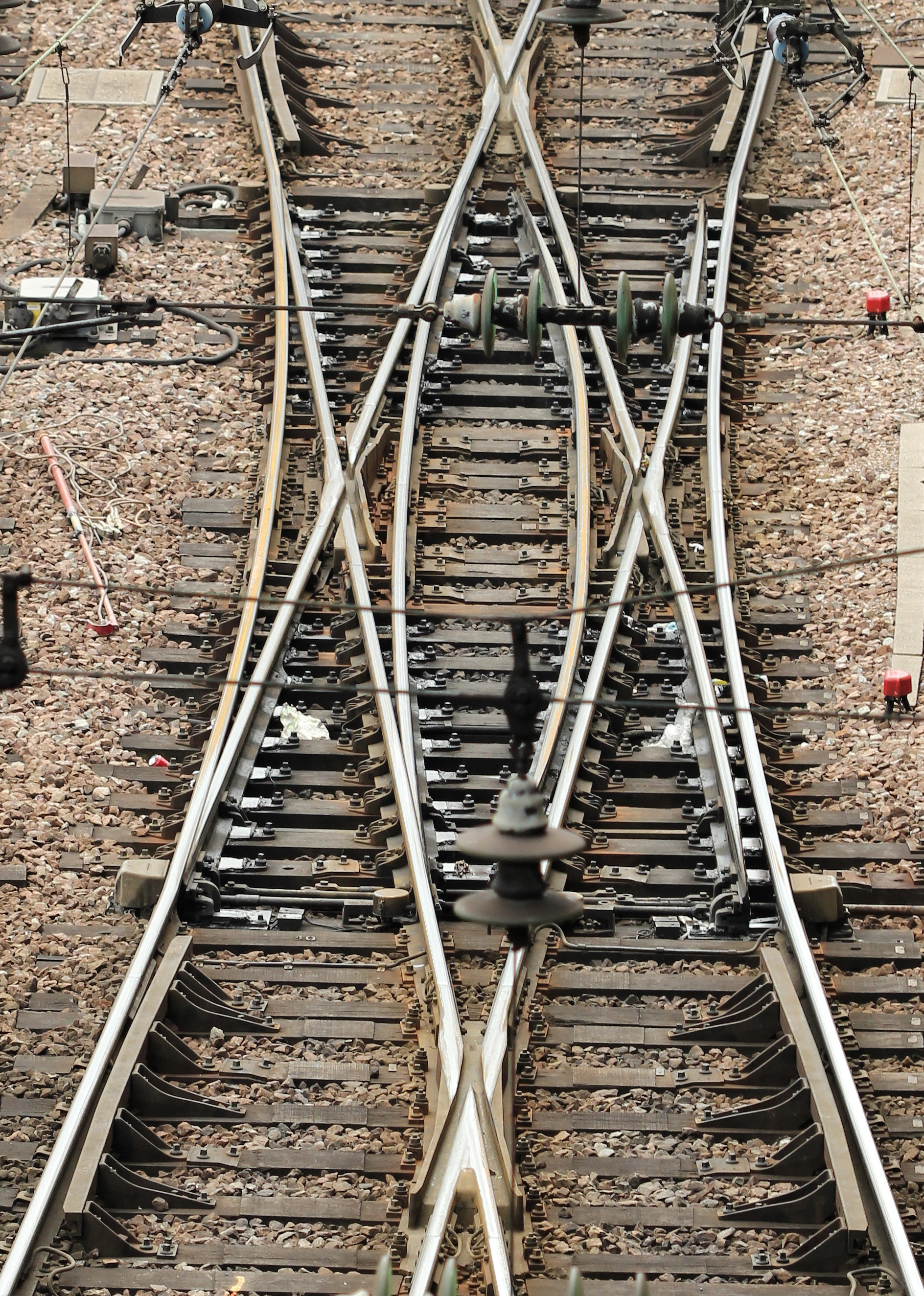 Traversée-jonction double. Cet appareil de voie permet le croisement ou la déviation des voies de circulation (dans cette position les trains venant du bas à droite sont dirigés vers la droite).